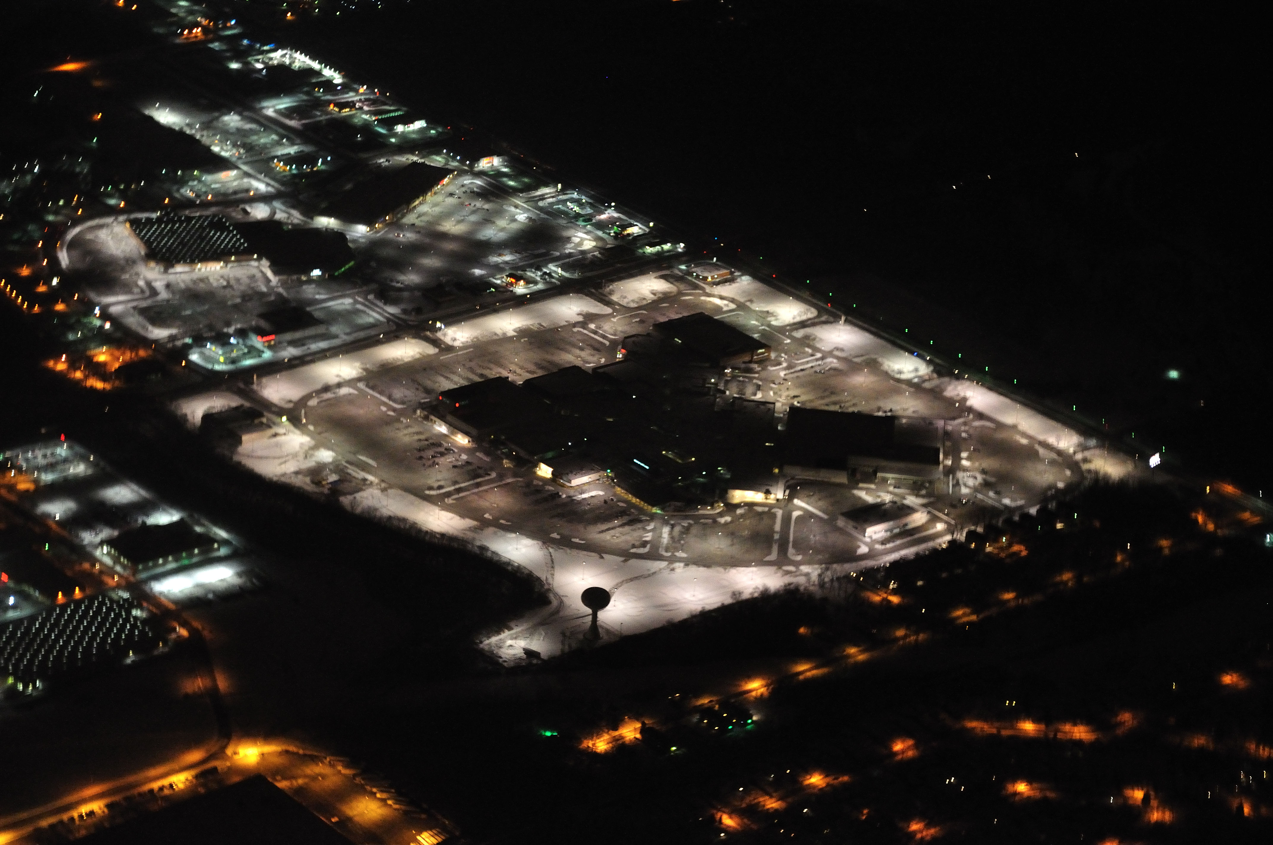 Aerial night view of River Oaks Center, a shopping mall in Calumet City, Illinois. (January 2010)